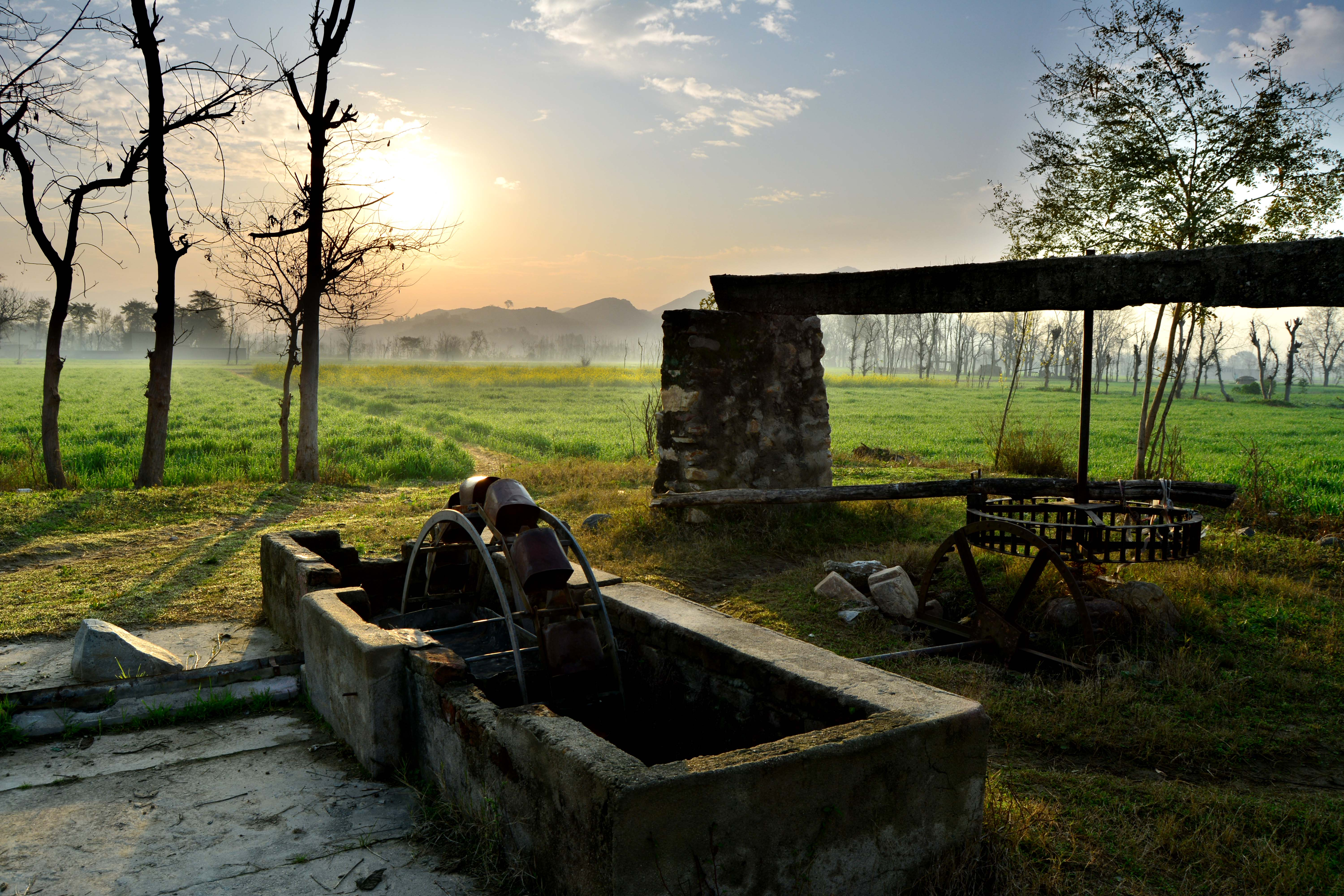 This is the place surrounded by feilds, this land is arrigate by well water. This well is called Arat in pashto term, people of this palce are very hardworker, I took this pic in winter seasons, people of this place caltivate wheat, maaz, and tobbaco, atmosphere of this place become very clear in this season after rain. Location: village: Saleem Khan; City: Swabi; province: KPK; country: Pakistan